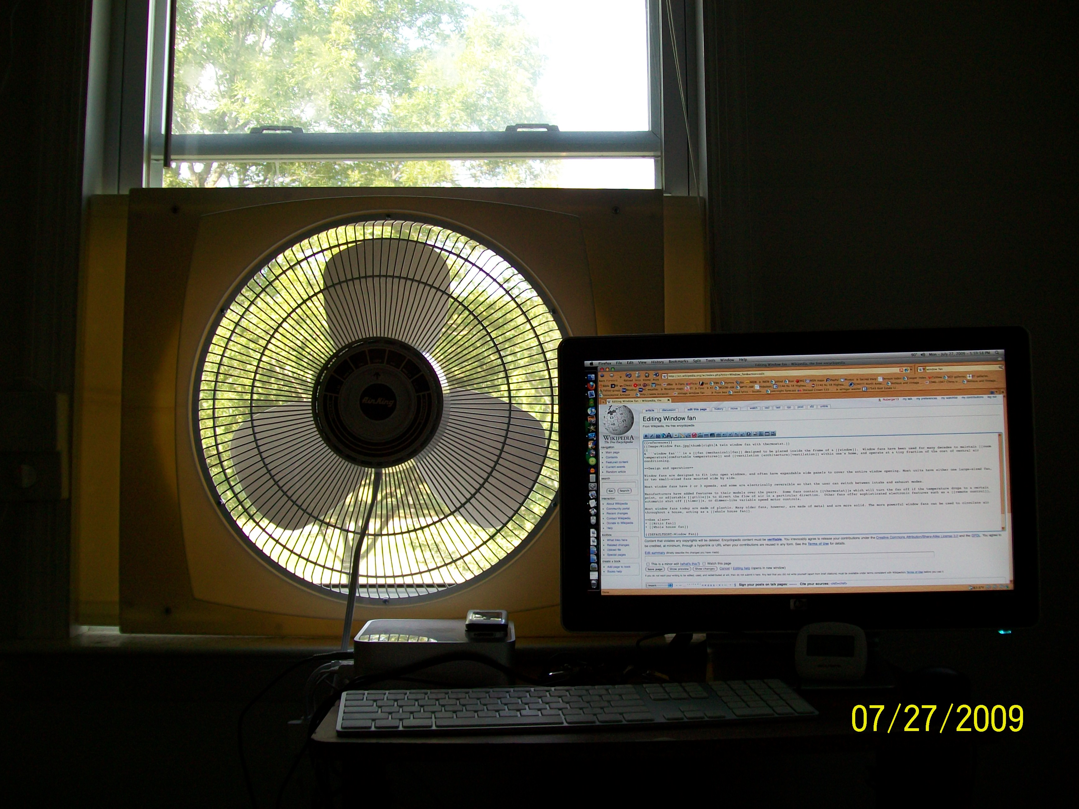 Photo of my brand new Air King model #9155 (also sold as Lasko model #2155A) window fan, for the window fan article.